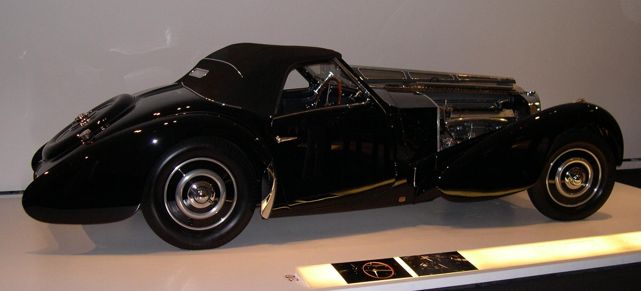 1937 Bugatti Type 57SC Gangloff Drop Head Coupe From the Ralph Lauren collection on display at the Boston Museum of Fine Arts. Photo taken in 2005. Source: Photo by User:Sfoskett